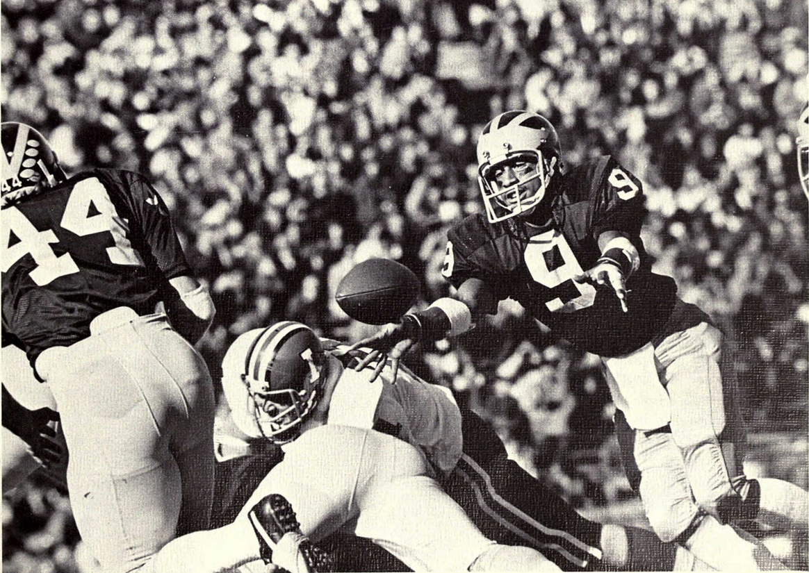 Photograph of Dennis Franklin (No. 9) tossing a lateral to Chuck Heater